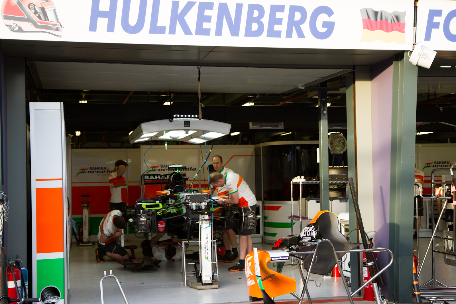 2014 Australian F1 Grand Prix